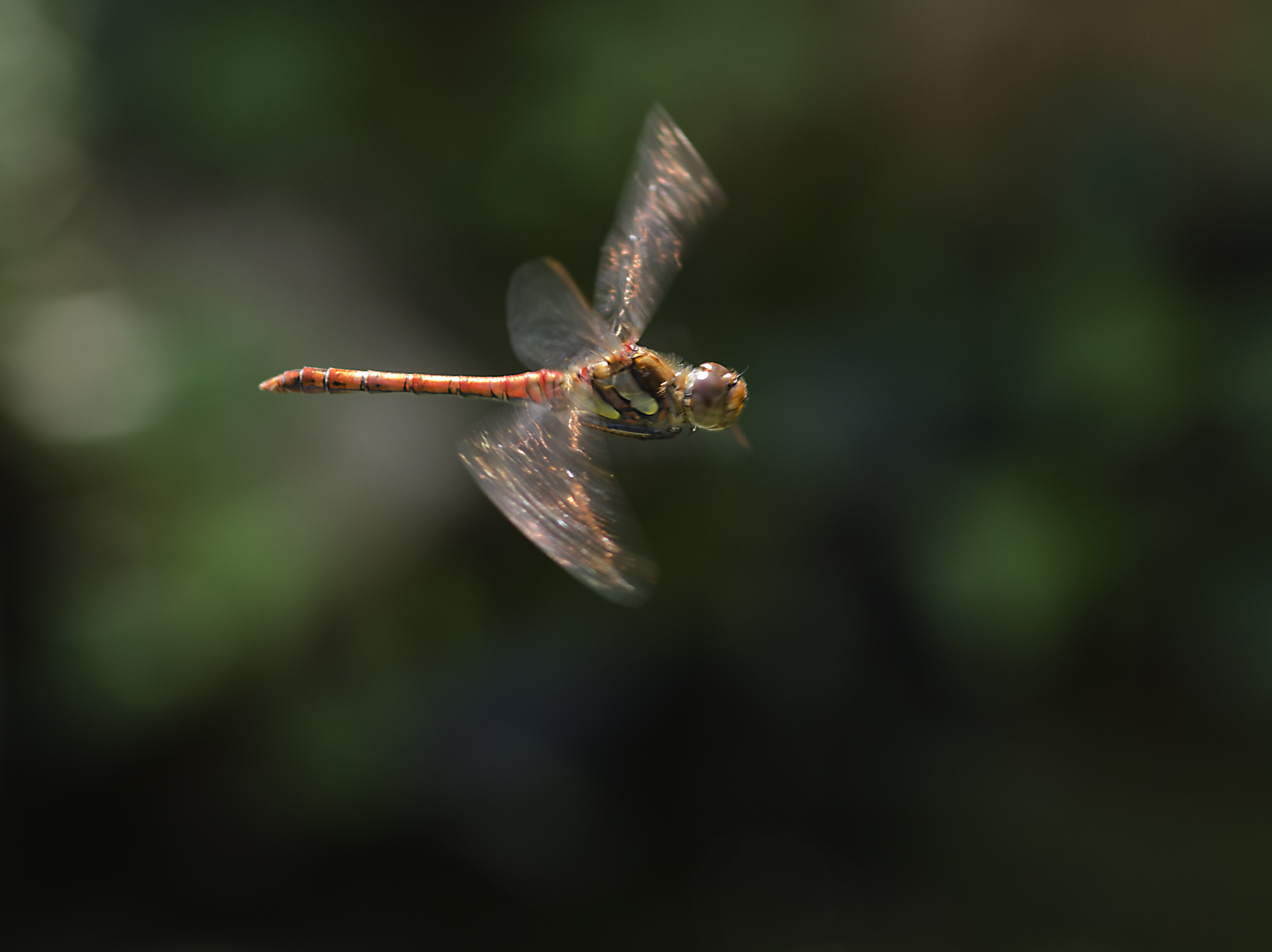 Common Darter in flight, Stuttgart, Germany